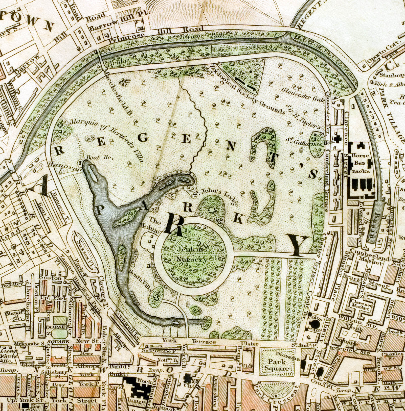 Regent's Park section of "Improved map of London for 1833, from Actual Survey. Engraved by W. Schmollinger, 27 Goswell Terrace", photographed for Wikipedia by User:Pointillist. All rights of the photographer are hereby released. The grey fold mark represents the vertical orientation of the original map.